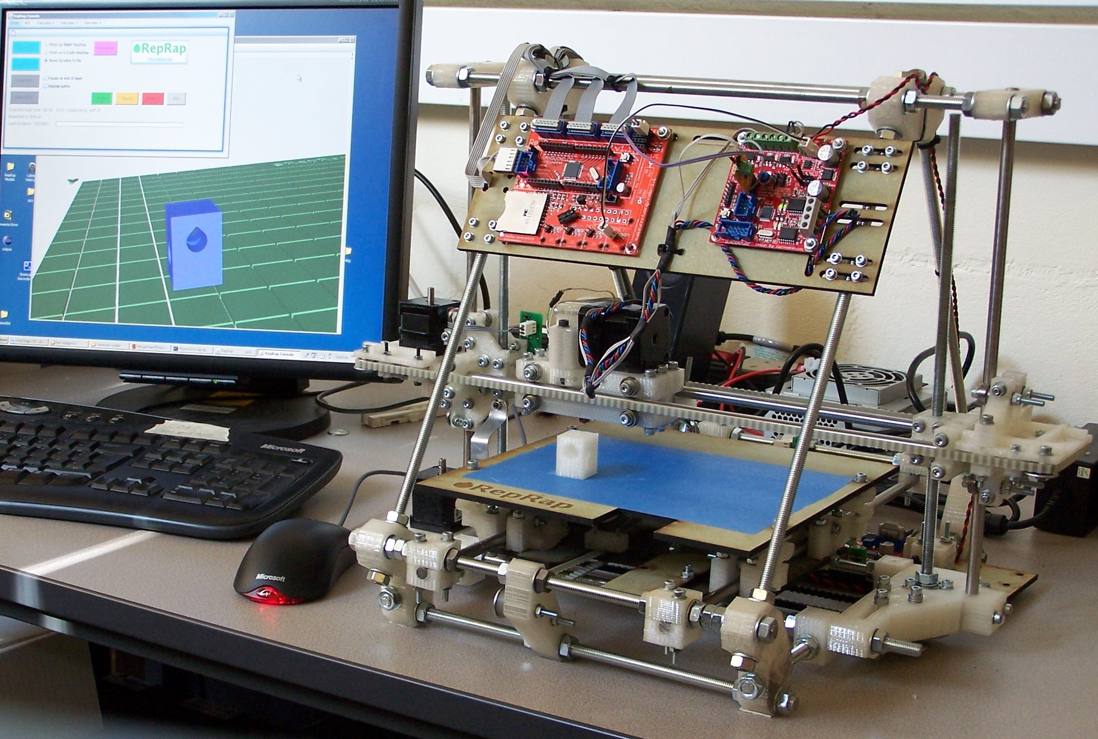 RepRap v2 'Mendel'. Self-replicating fused deposition modelling (FDM) machine